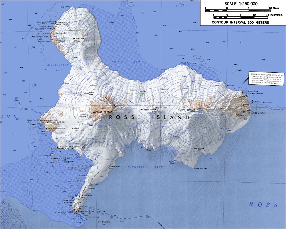 Topographic map of Ross Island, Antarctica (1:250,000 scale)